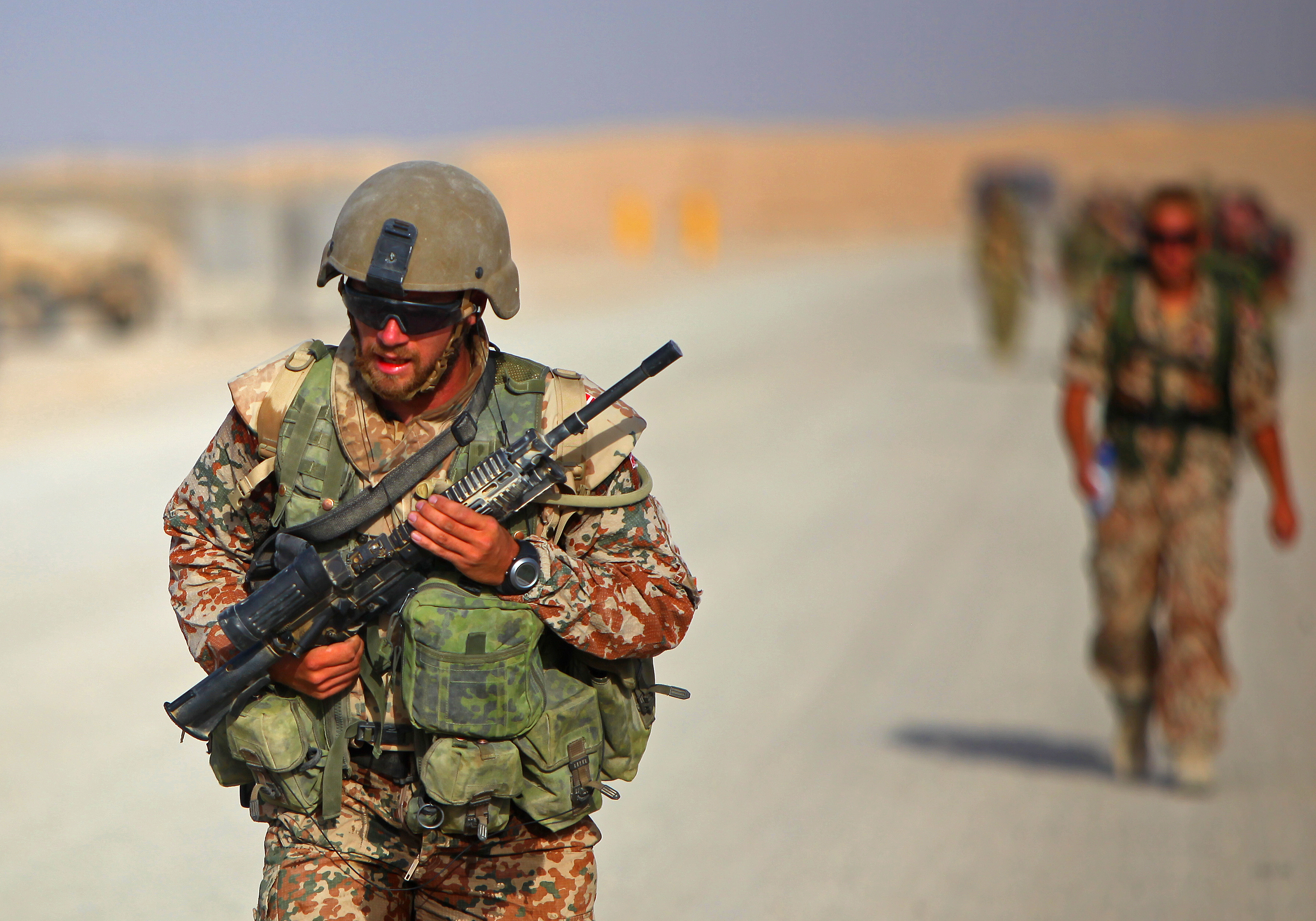 Pfc. Gade, a driver with Transport Platoon, Danish Battle Group, runs with a full combat load during the Danish Contingent March aboard Camp Leatherneck, July 26. The Dancon march is a 15-mile endurance contest held by Danish troops wherever they are deployed.